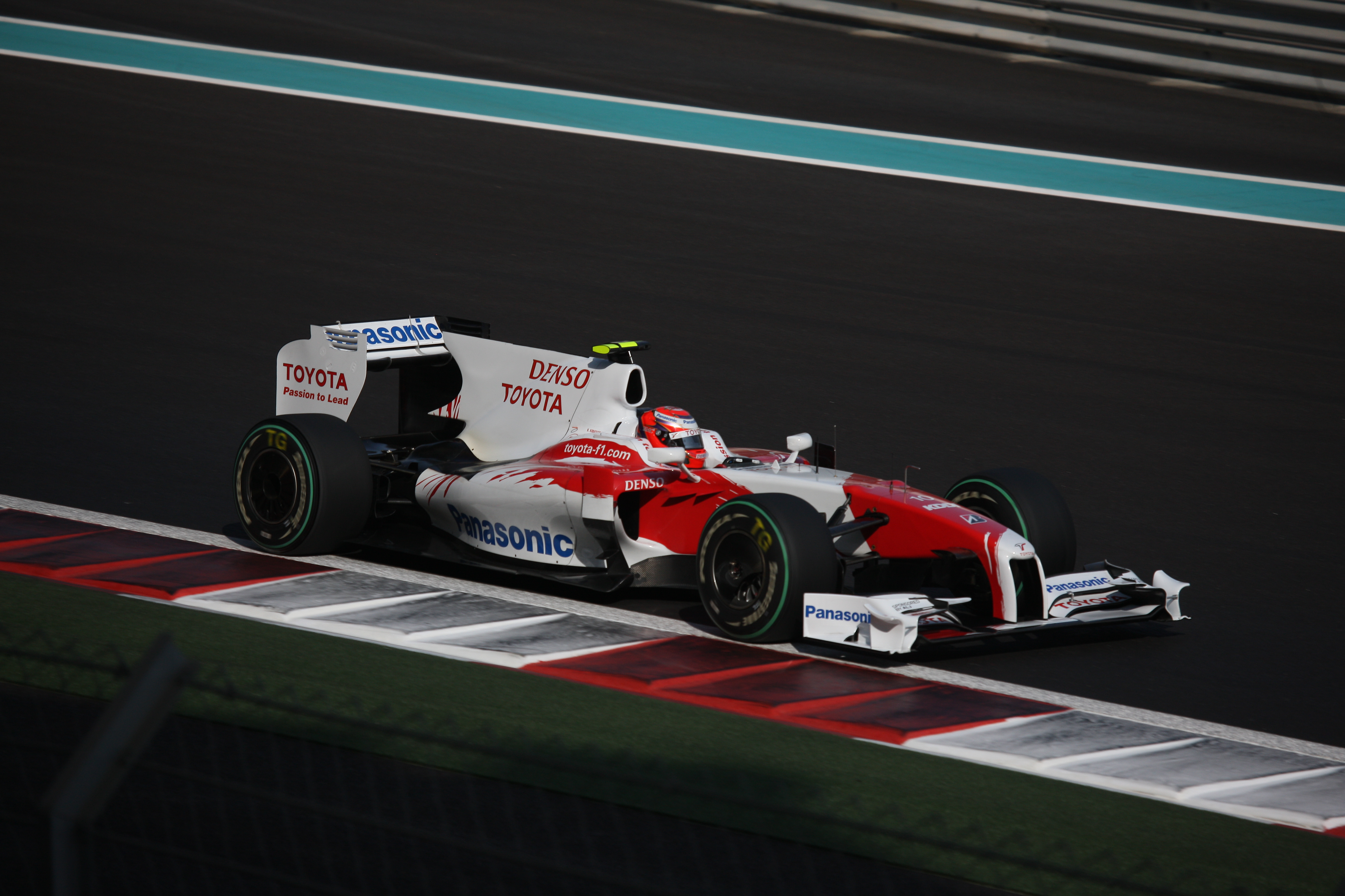 Kamui Kobayashi Toyota TF109 on Saturday at 2009 Abu Dhabi Grand Prix.